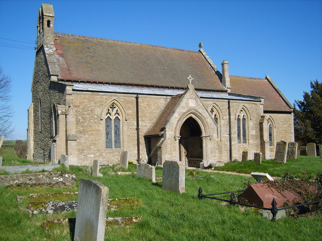 Parish church of St Michael and All Angels, Church Lane, Whitwell, Rutland, seen from the southwest